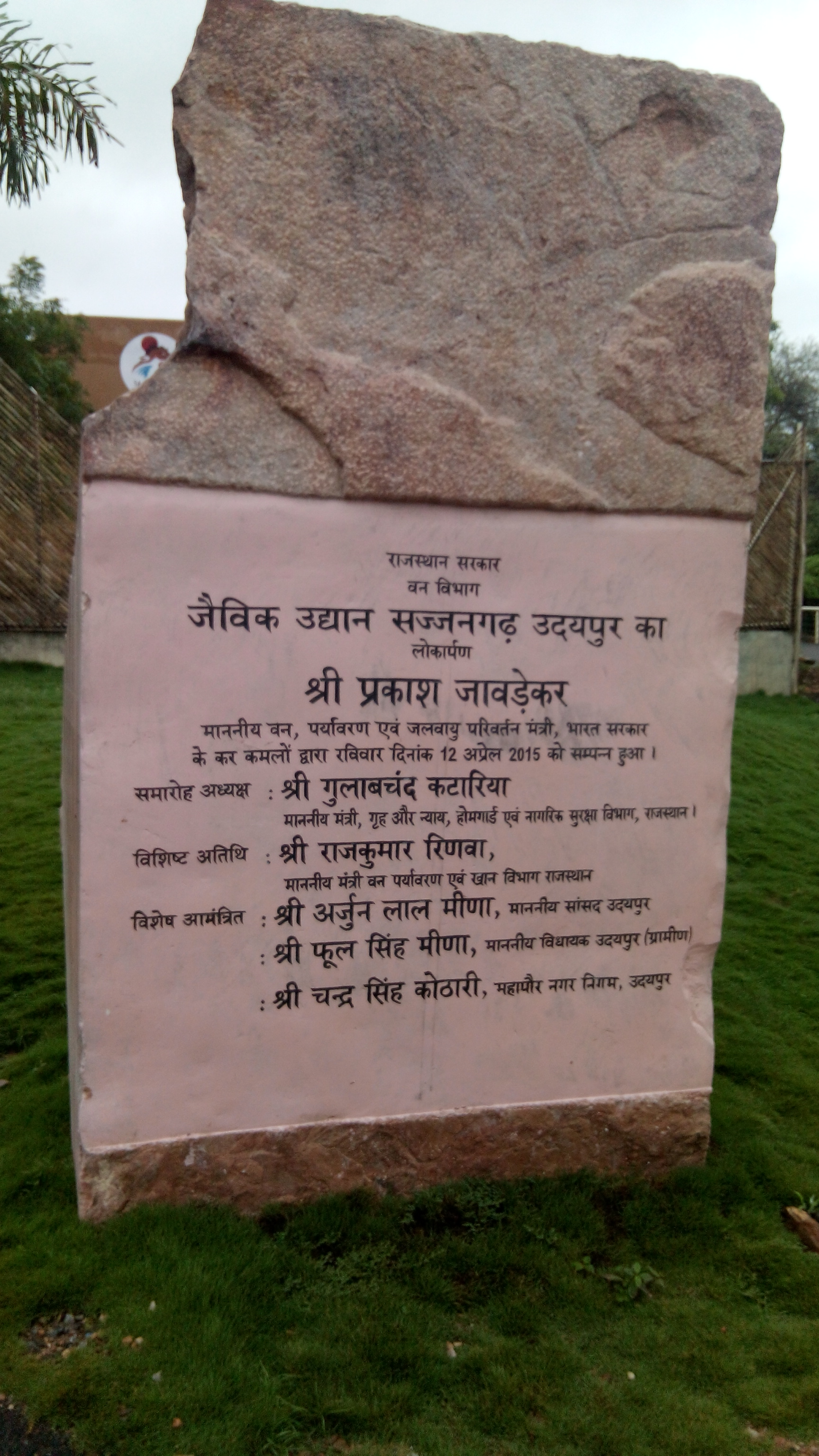 A photograph of the foundation stone of Sajjangarh Biological Park, kept at the entrance gate.